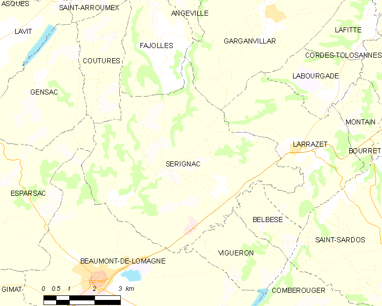 Map of French municipality Sérignac